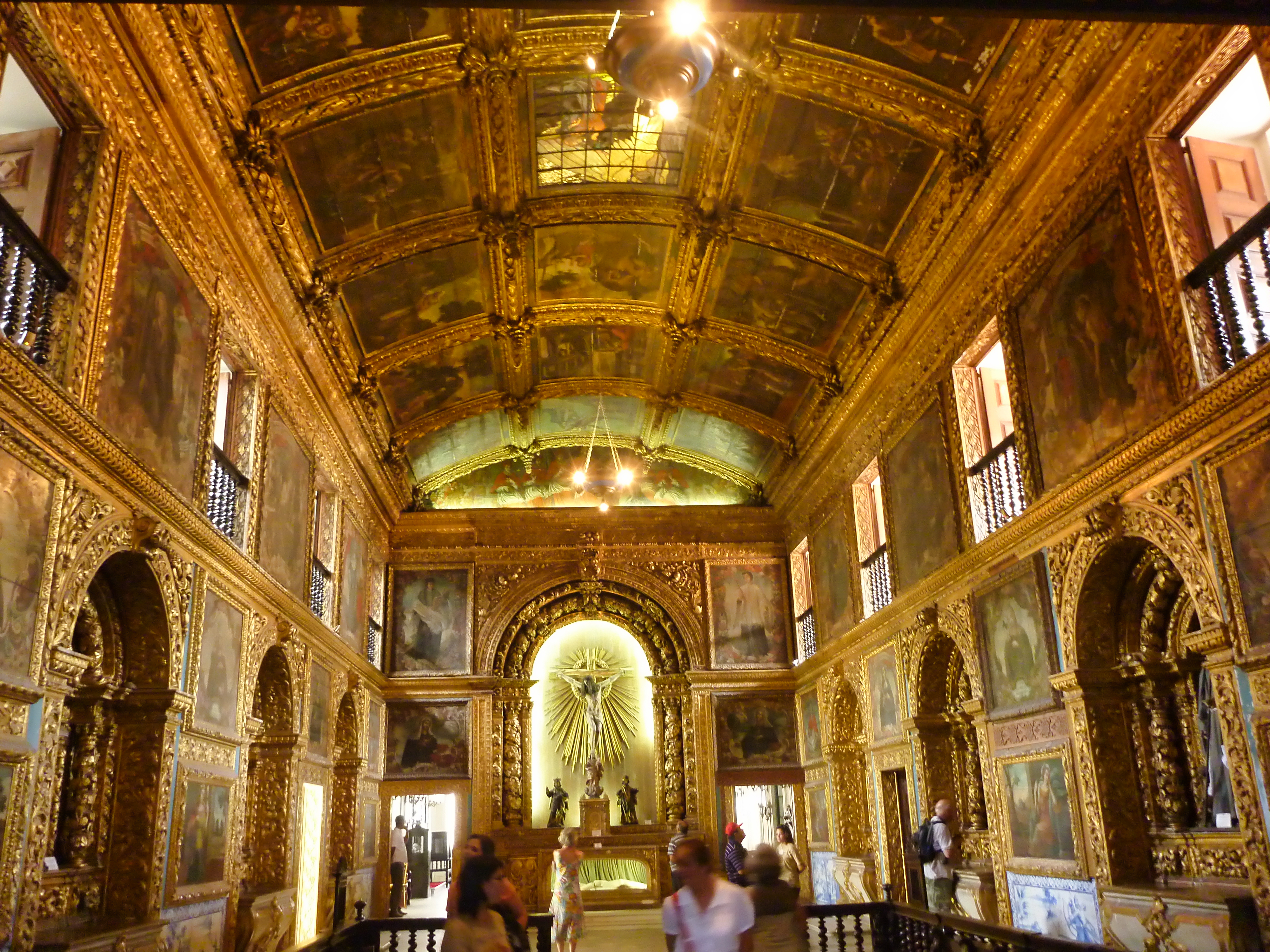 Baroque interior of the Golden Chapel (Capela Dourada) of the Convent of Saint Anthony in Recife, Brazil